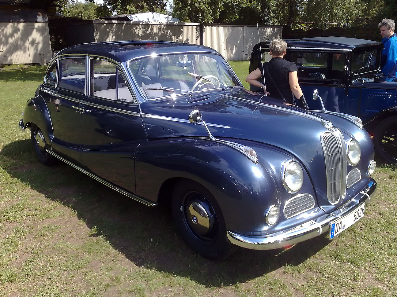 BMW 502